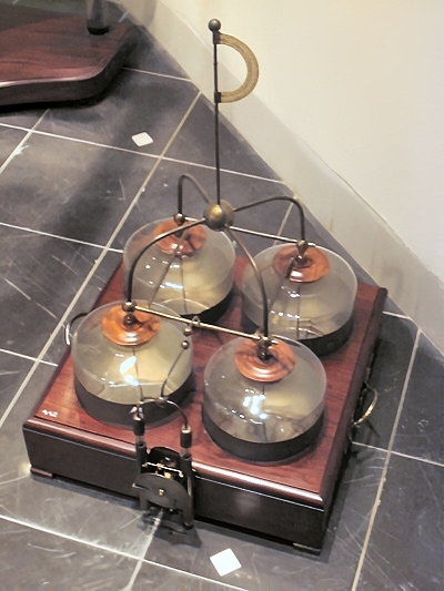 A 'battery' of four Leyden jars connected in parallel, Museum Boerhaave, Leiden. The Leyden jars are an early type that had water inside the jar to serve as one of the plates. The semicircular scale attached to the central output teminal is a pith ball electrometer (Henly electrometer) that gives a rough measure of the charge.